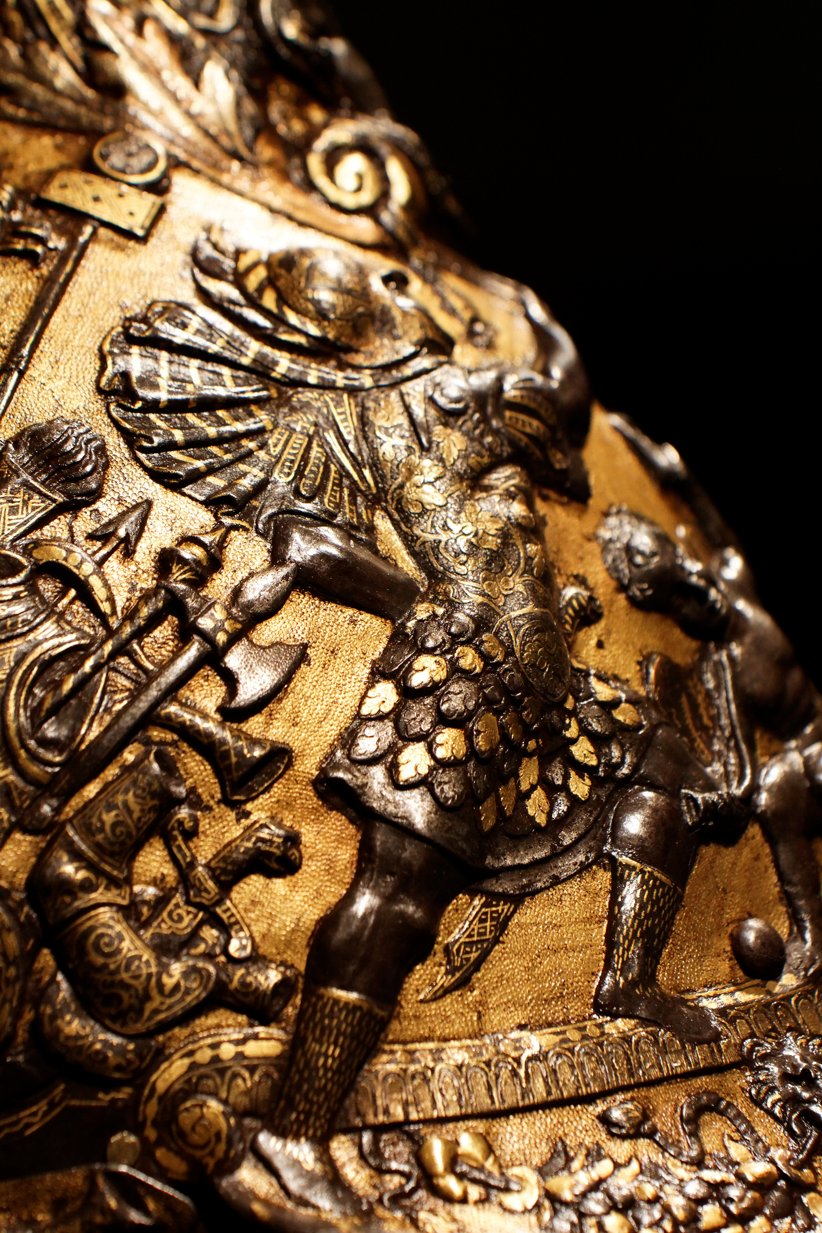 Burgonet made for king Henry II of France